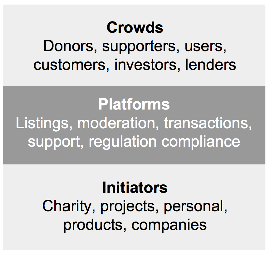 Crowdfunding model key elements and roles.